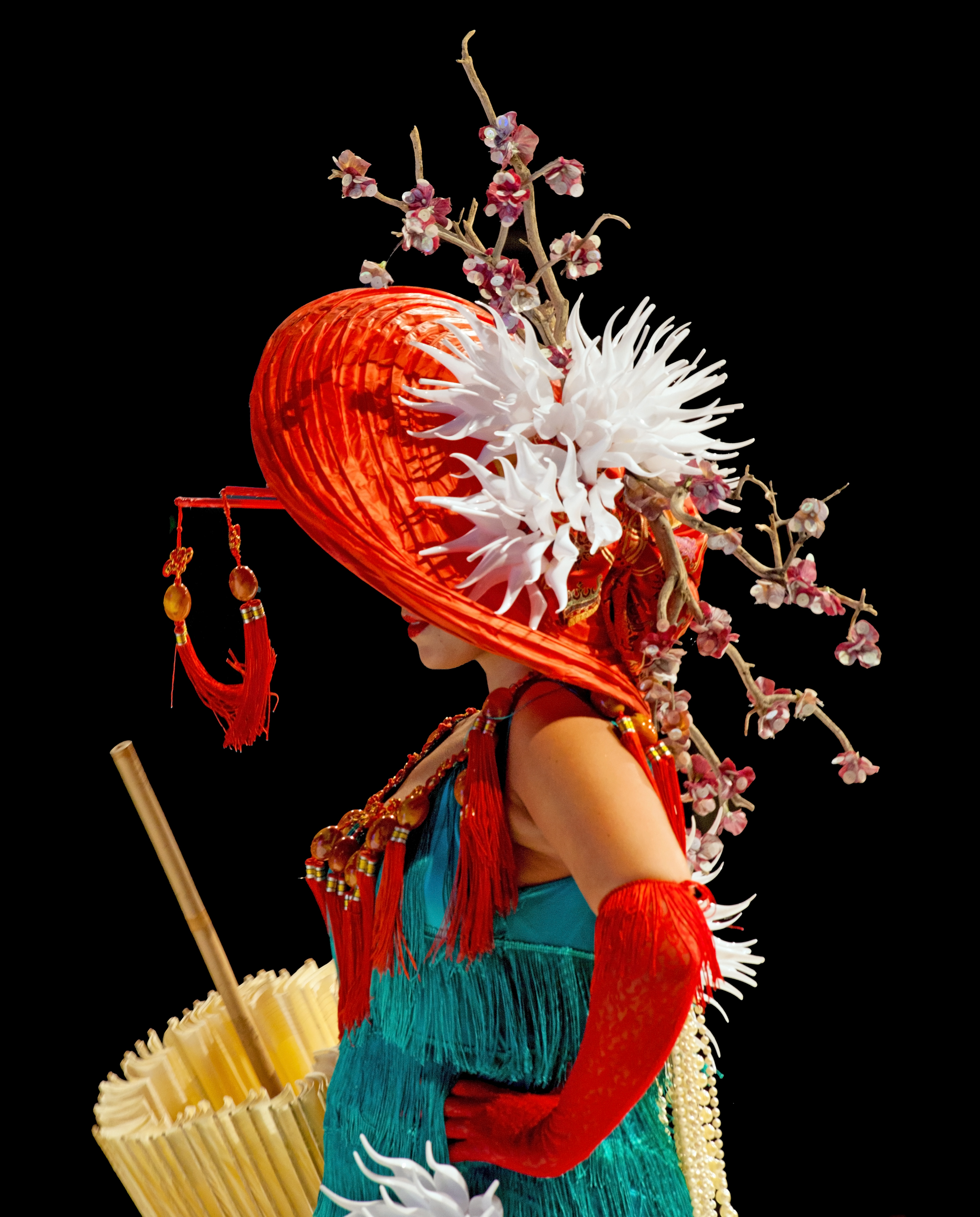 Las Palmas de Gran Canaria, 02/10/2015, "Carnaval Fashion Week" Show, Costume features plastic spoons (white flowers) and collapsed paper lampshade (hat)